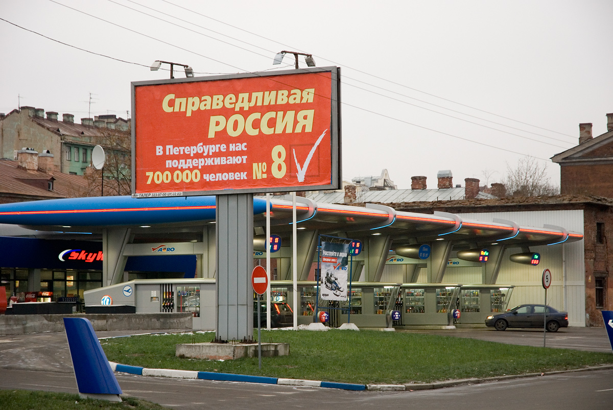 Election advertising in Sankt-Petersburg, Russia. November, 2007